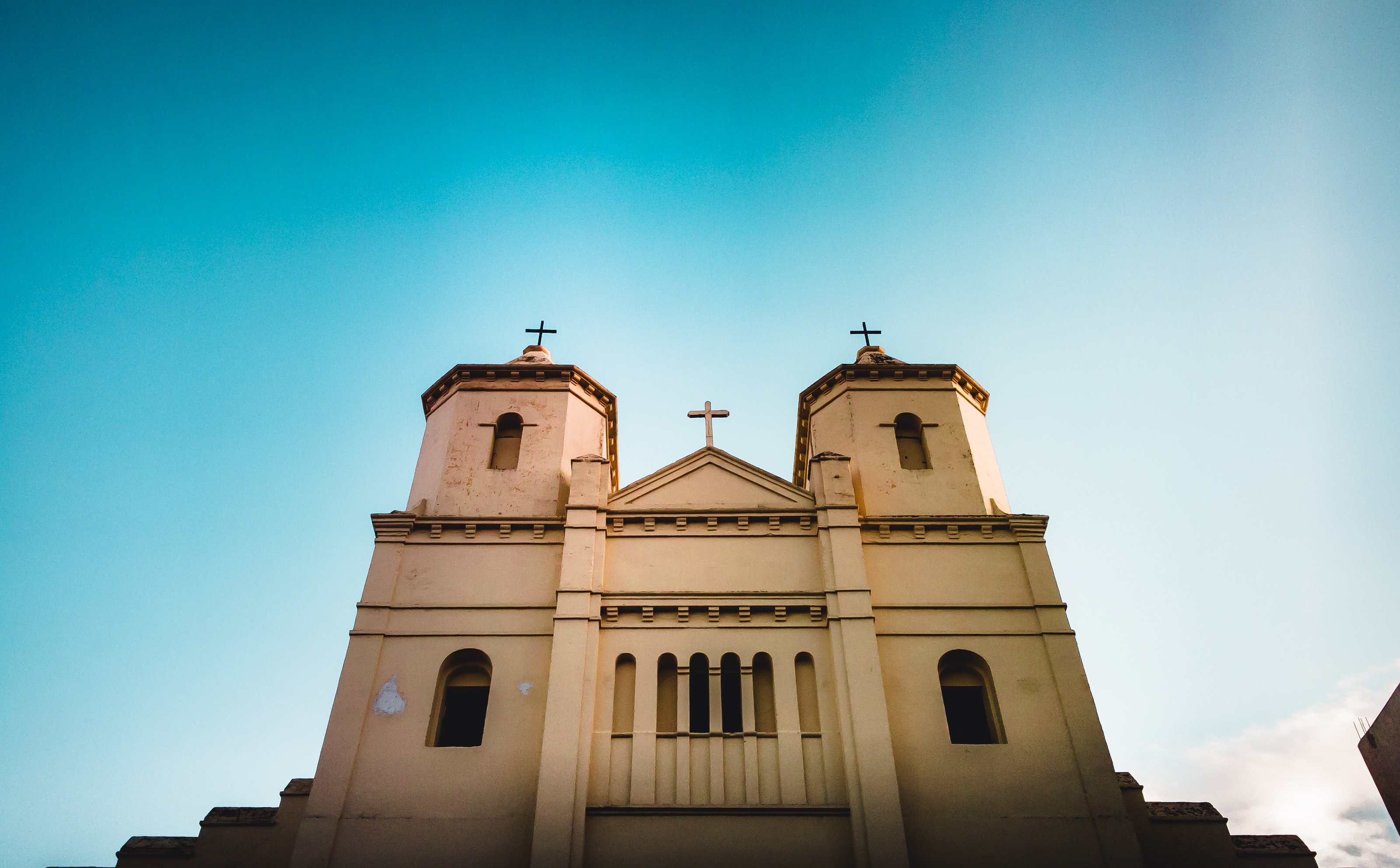 Old Church in Nador City